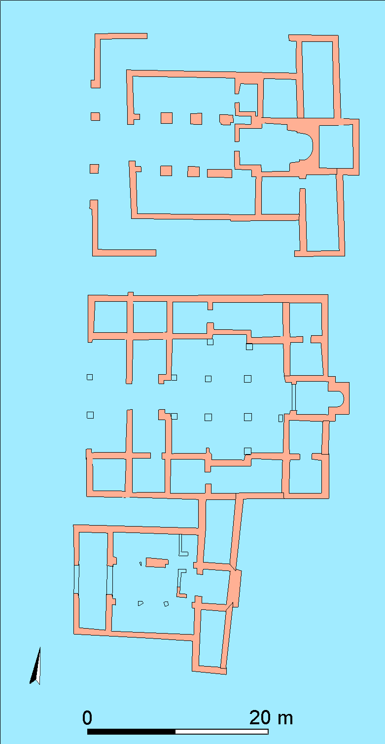 plan of three medieval churches at Soba East, Sudan